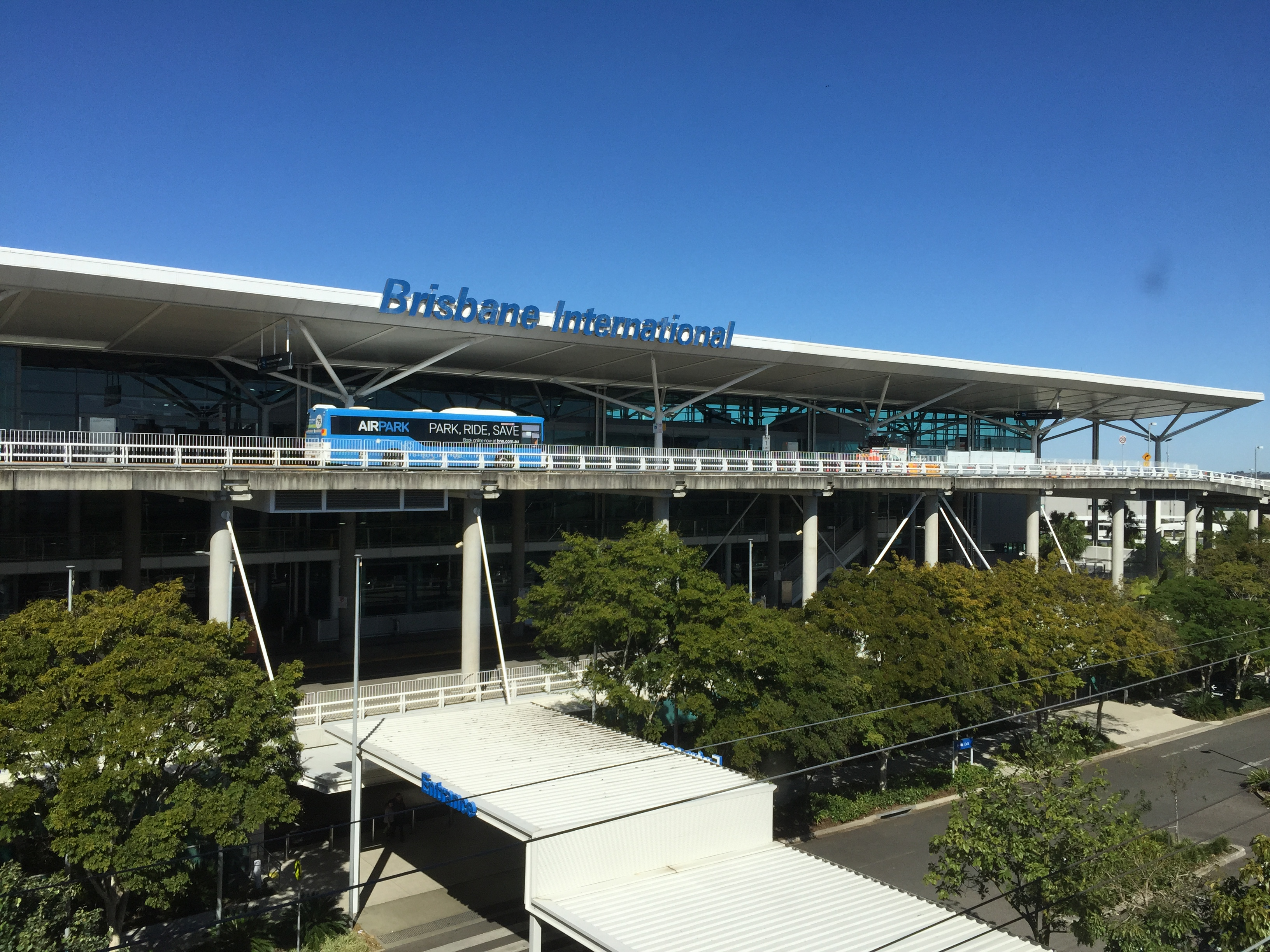 Brisbane International Terminal